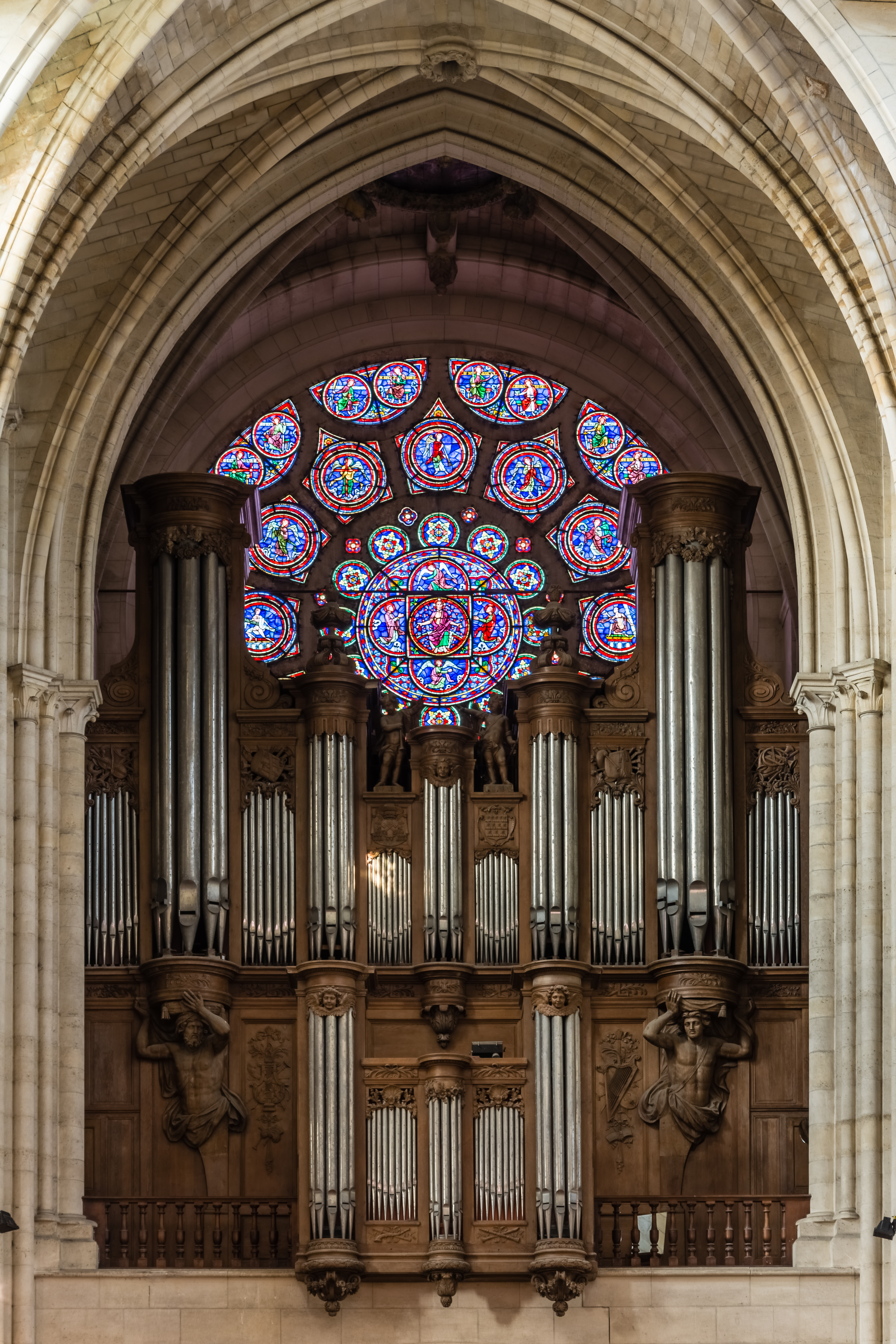 Organ and west rose window of Laon Cathedral Notre-Dame, Picardy, France